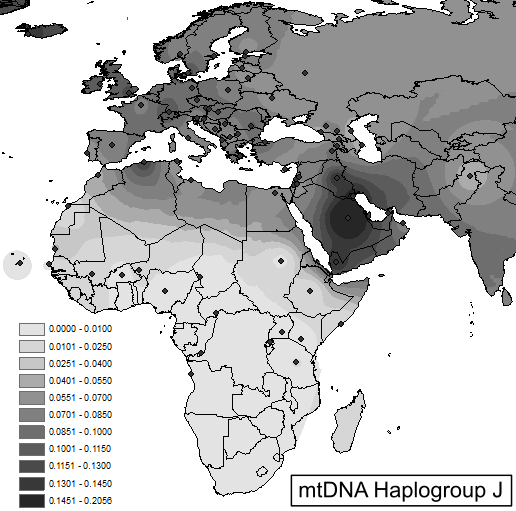 Frequency maps based on HVS-I data for mtDNA haplogroups J.